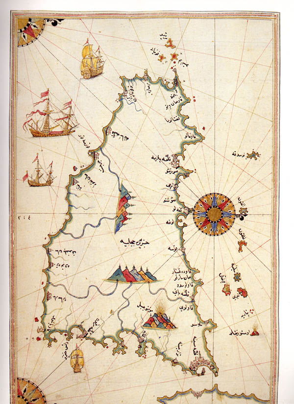 Sicily in Italy on the Kitab-Ä± Bahriye (Book of Navigation) of Piri Reis